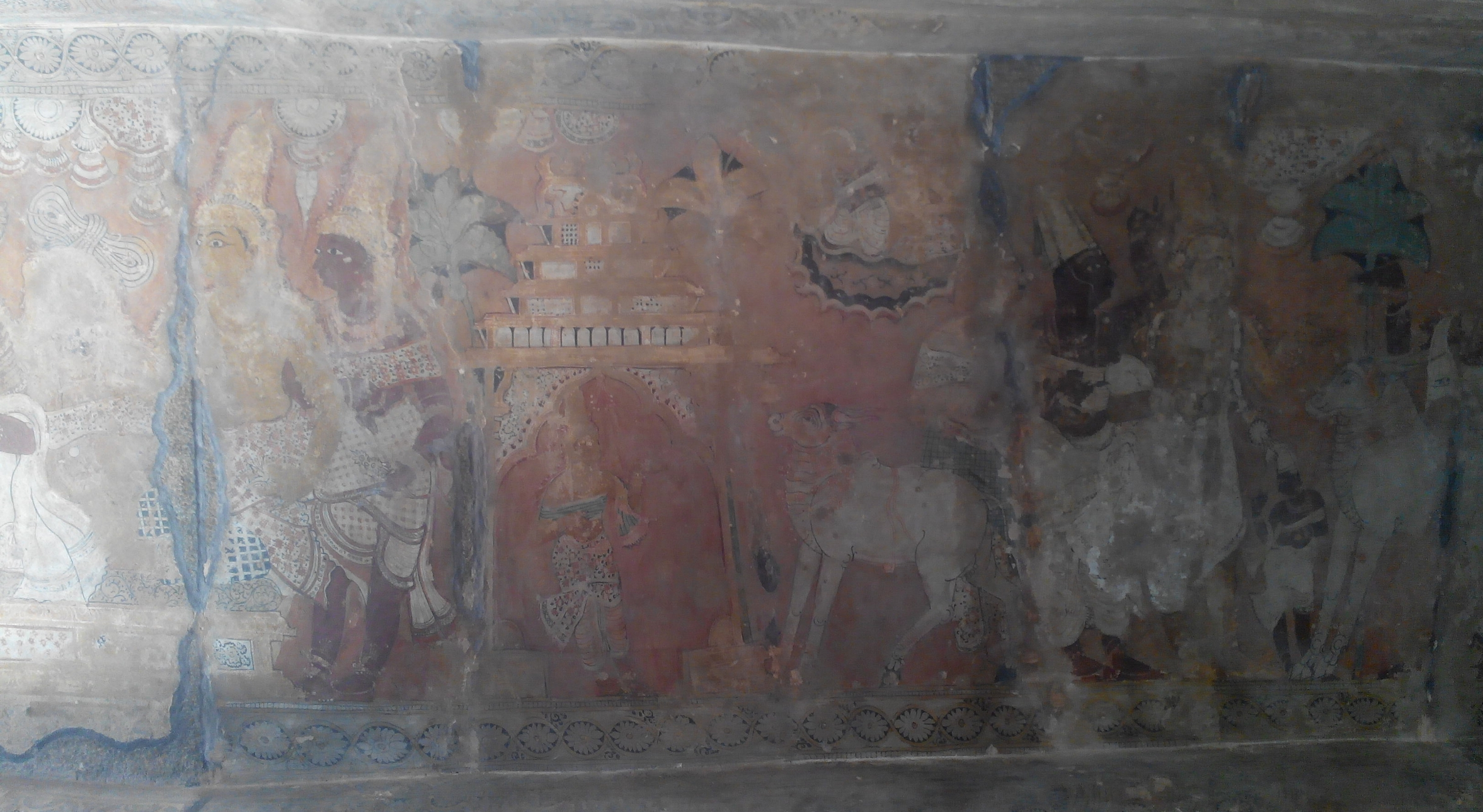 இது லேபாட்சி வீரபத்திரர் கோயில் விதானத்தில் உள்ள மனு நீதி சோழனின் வாழ்க்கையைக் குறிப்பிடும் ஓவியங்களில் ஒன்று. இந்த ஓவியமானது, கன்றை தேரேற்றிக் கொன்றுவிட்ட சோழ இளவரசன் நீதிவிடங்கனின் செயலால் துன்புற்ற பசு சோழனின் ஆராய்ச்சி மணியை அடிப்பதை சித்தரிக்கிறது